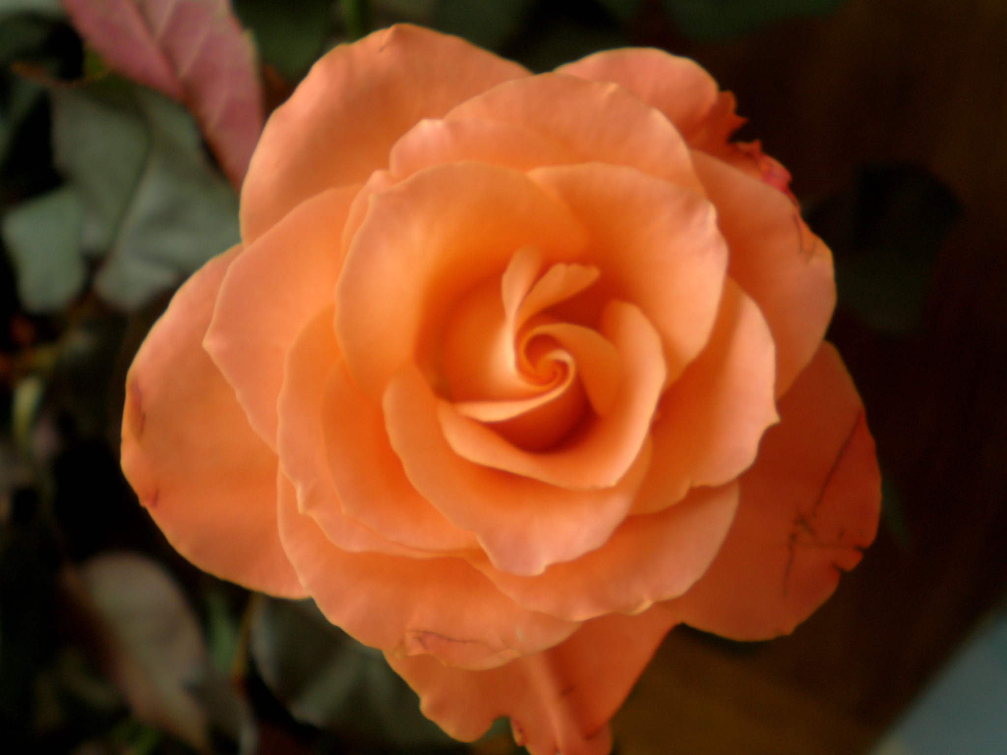 This photo was made in Stargard Szczeciński